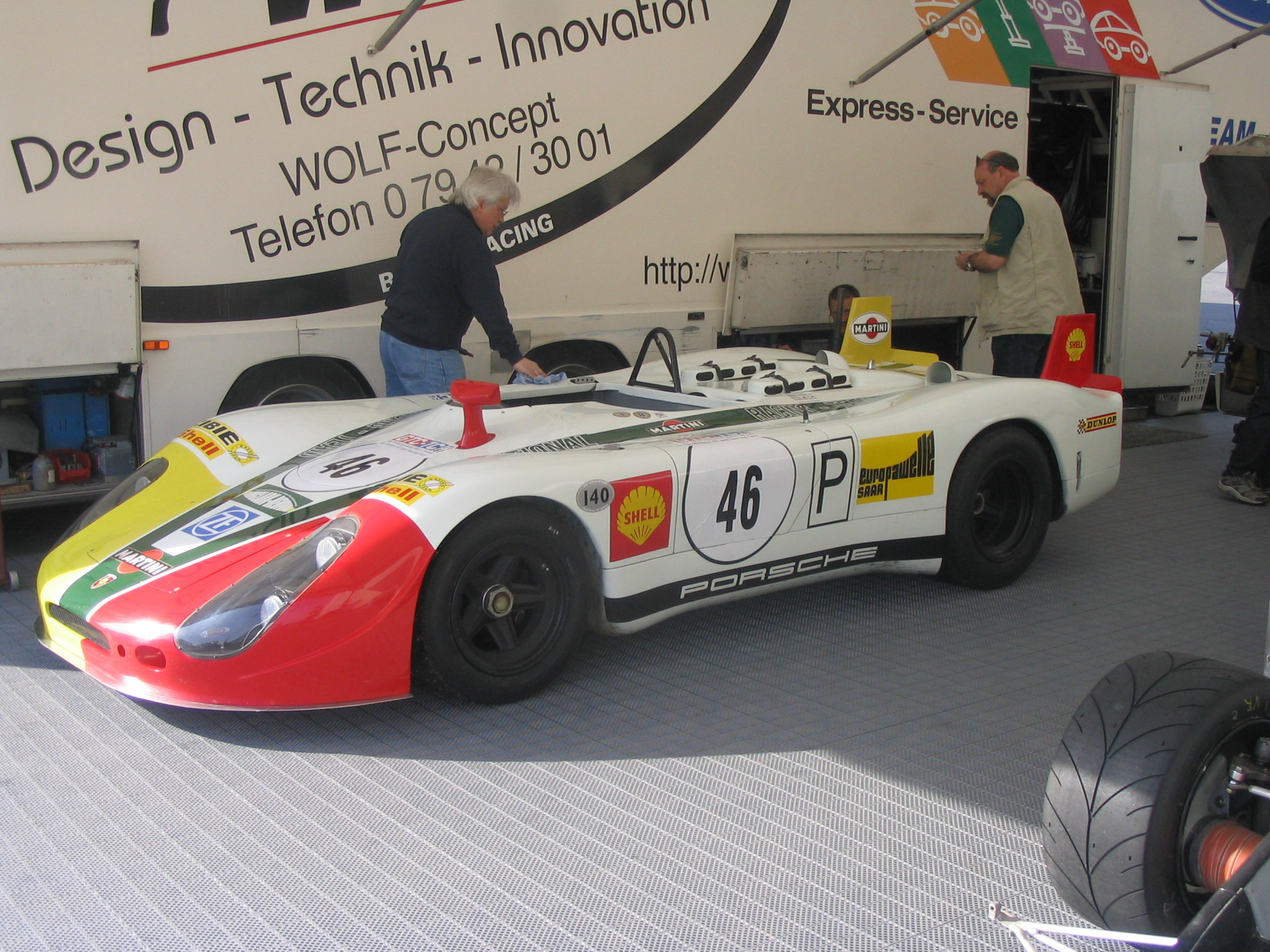 Porsche 908/2 LH driven by Friedrich Kotzka and Ulrich Schumacher at Jim Clark Revival 2008 in the paddock.